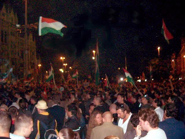 2006 anti-government protest, Szabadság square, Budapest, Hungary Kossuth square, Budapest, 2006 sept.